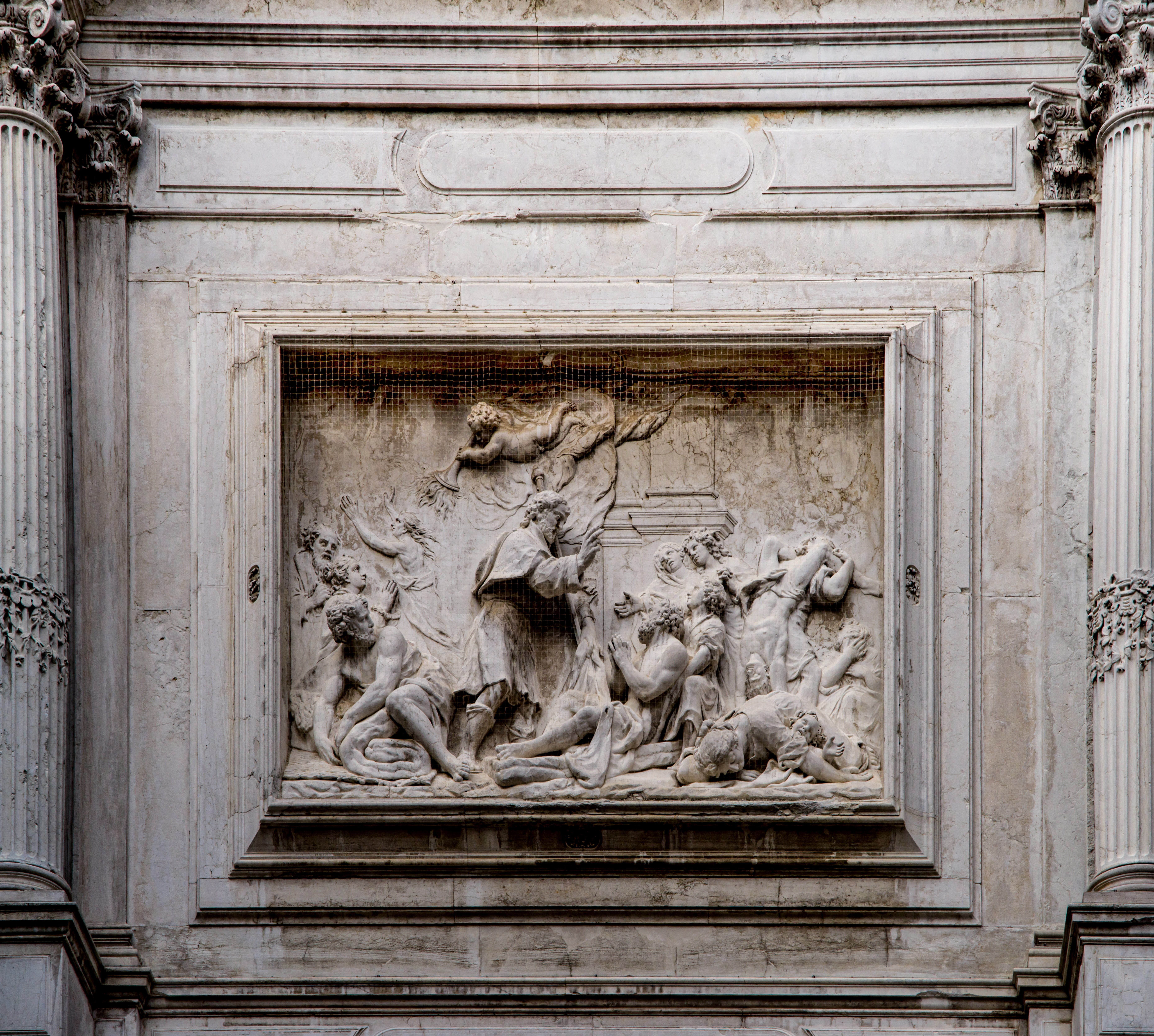 A stroll through Venice